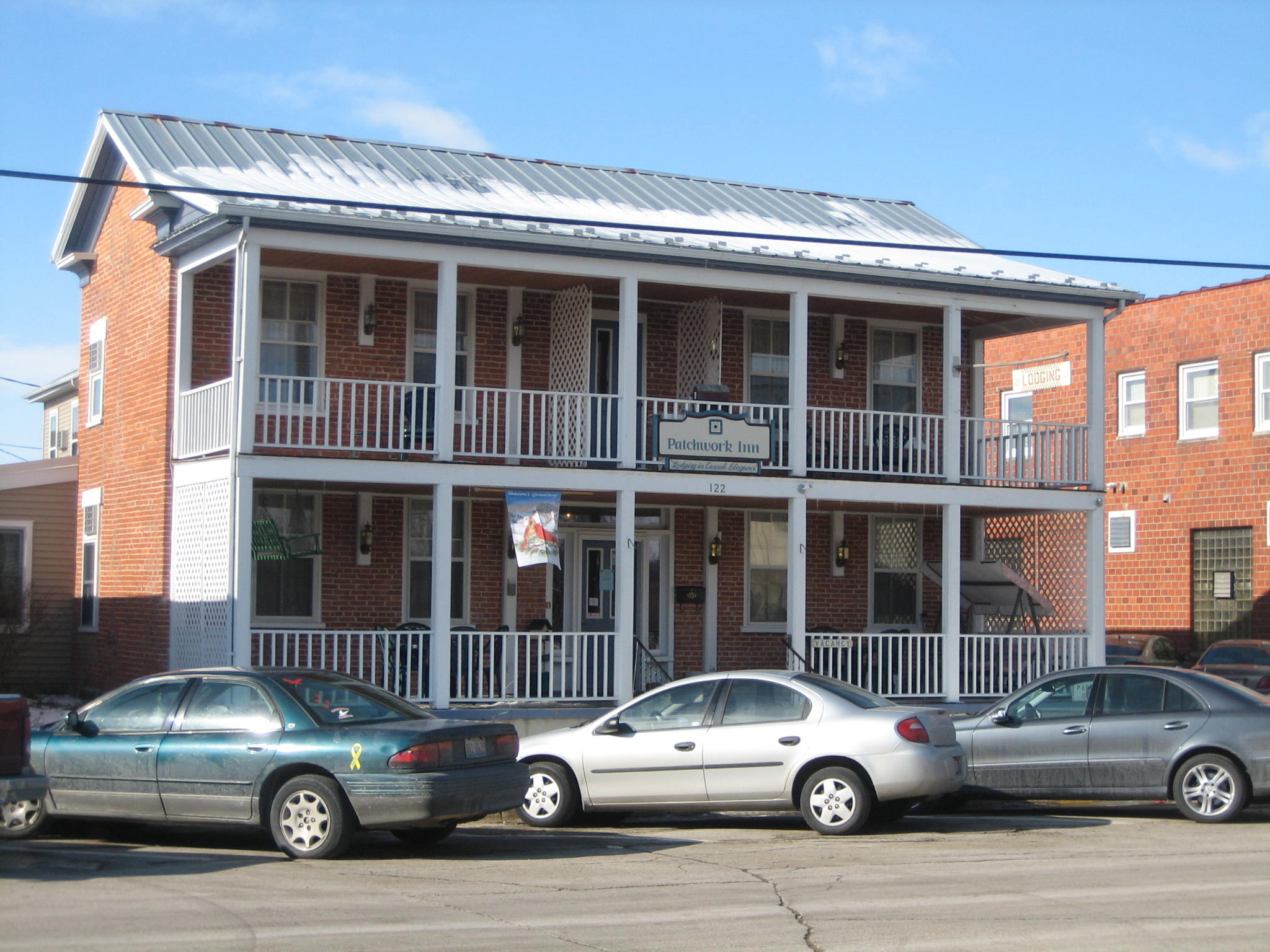 Today, Patchwork Inn, historically c. 1860 Rock River Hotel, among other names 122 S. Third St., part of the Oregon Commercial Historic District, Oregon, Illinois. National Register of Historic Places.